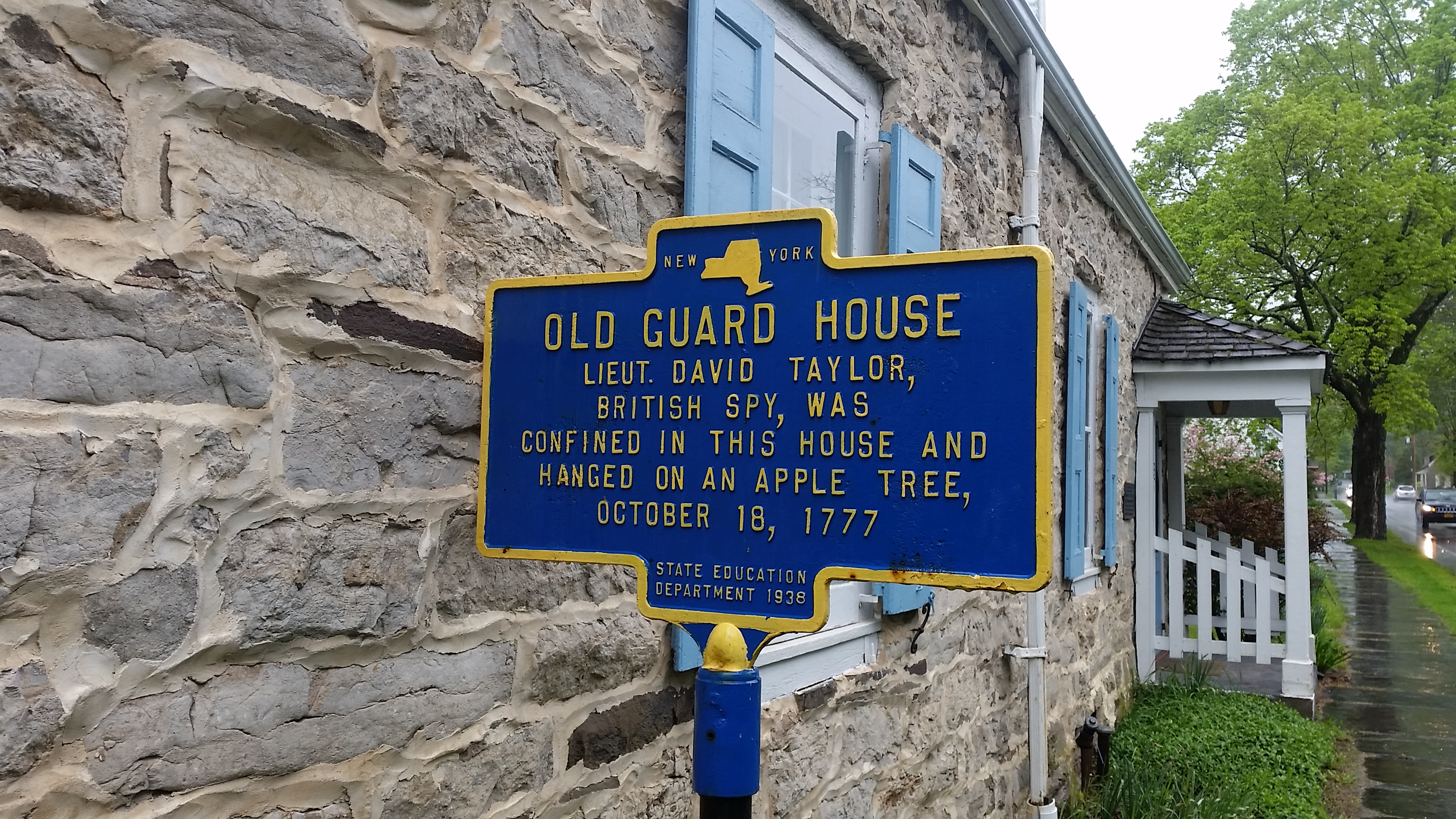 NYS Historical Marker for the Old Guard House where British Spy David Taylor was held before being hanged in 1777. Safe for Brits to visit now though.